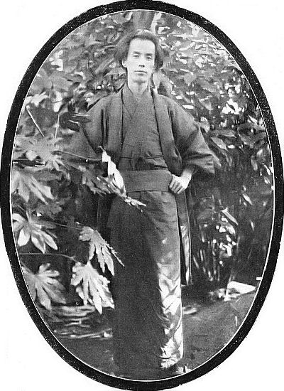 Ryunosuke Akutagawa